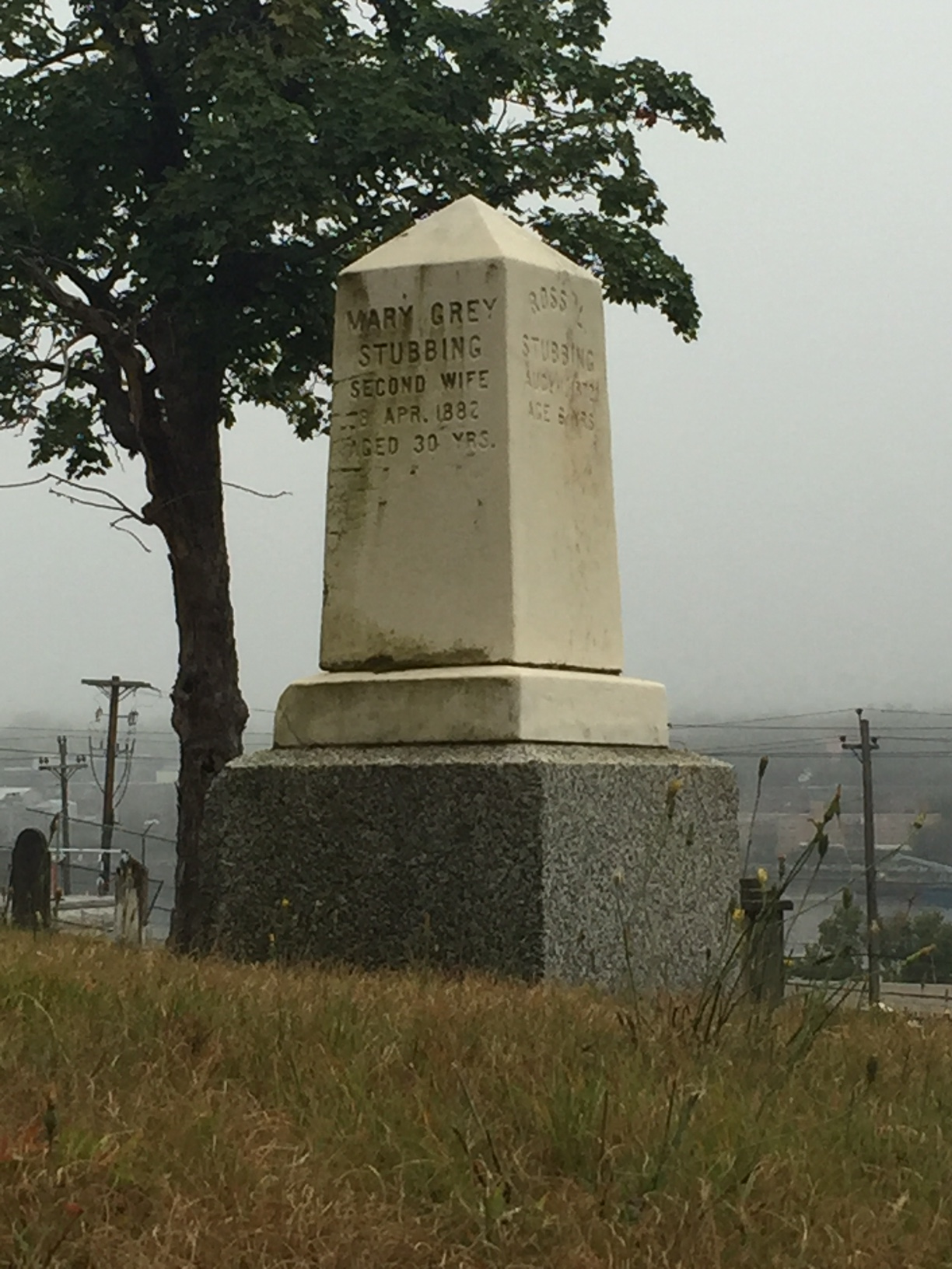 Charles Stubbing Family, Royal Naval Burying Ground, Halifax, Nova Scotia